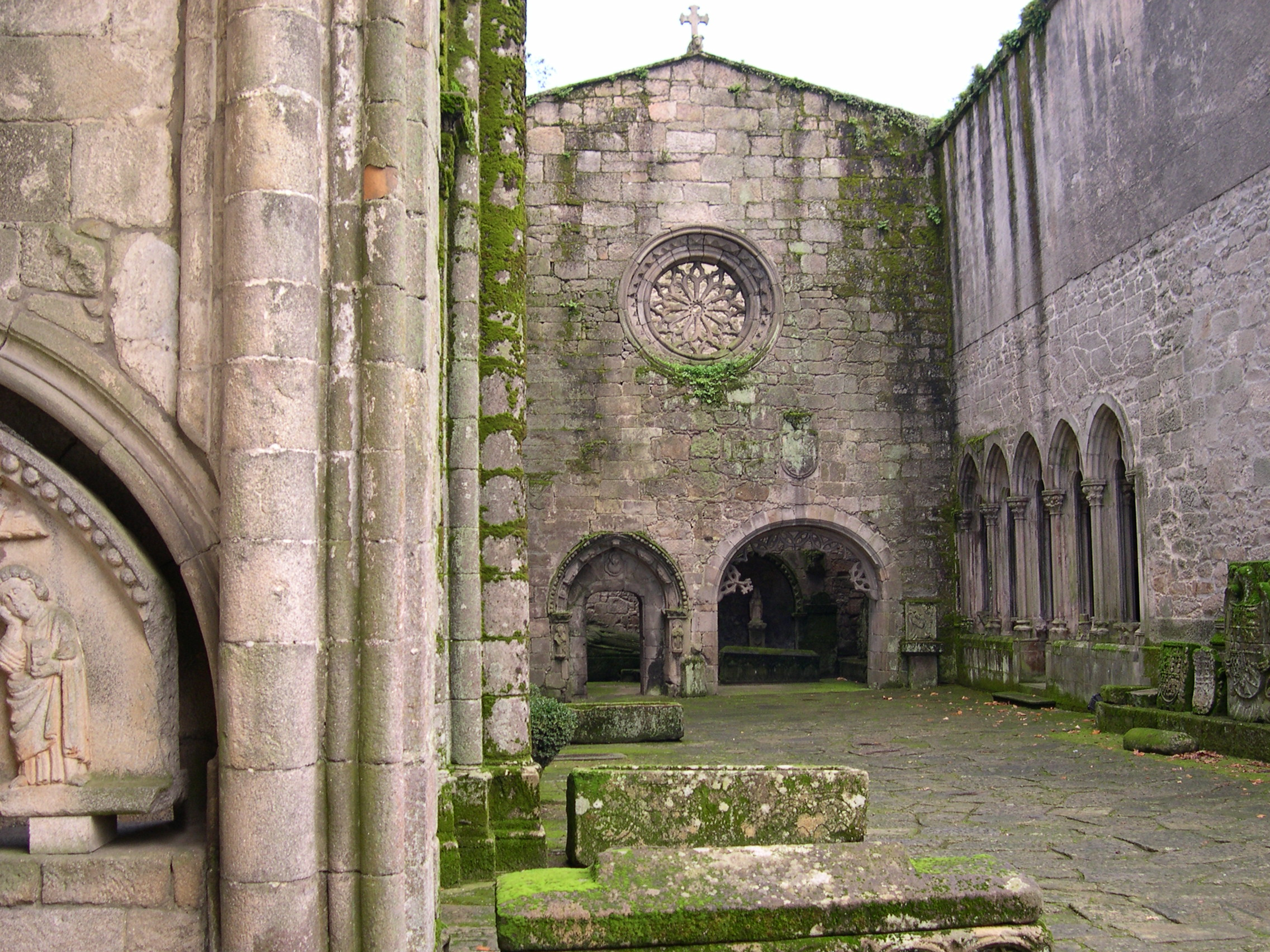 Pontevedra romance church